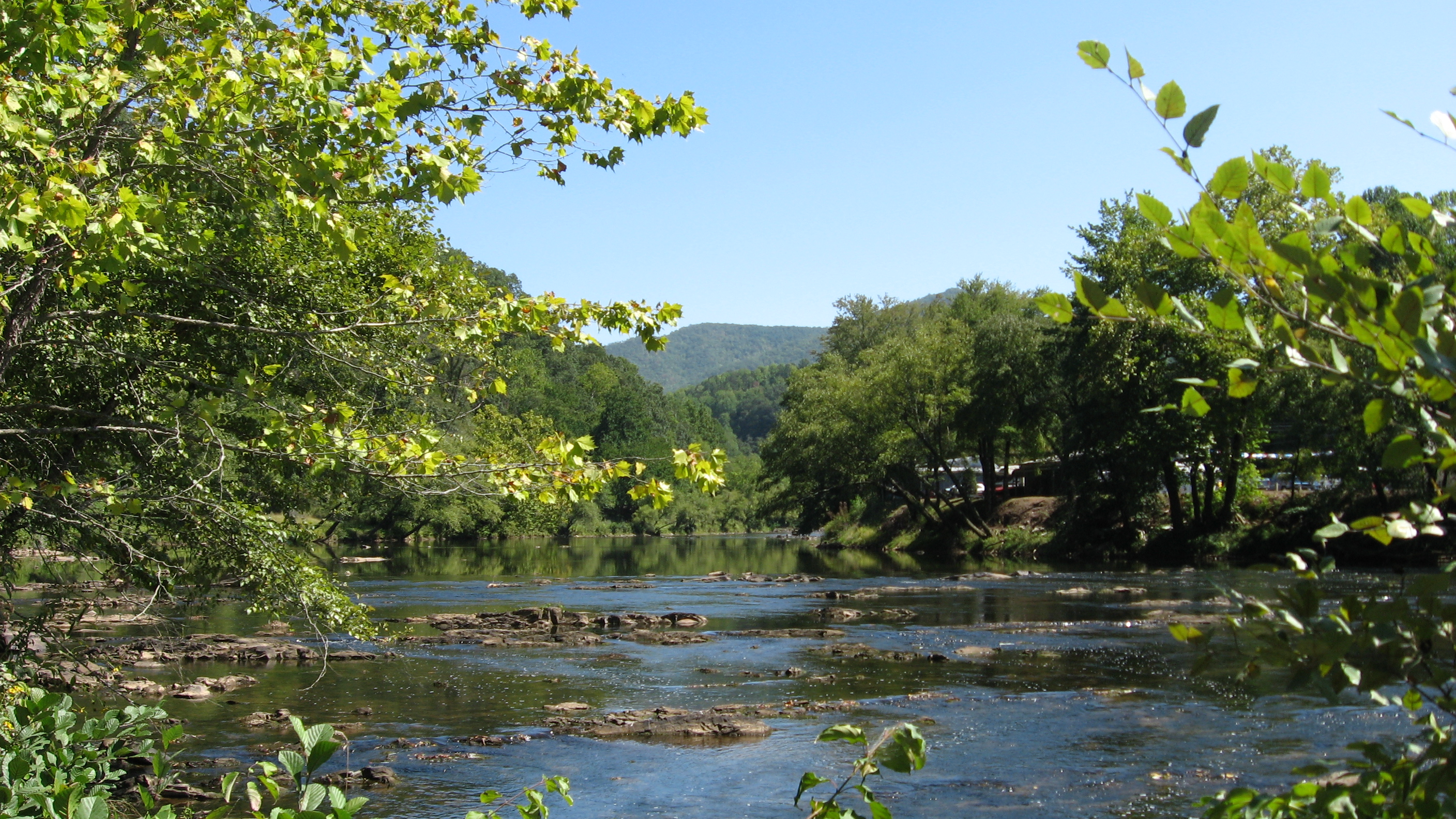 A view up the Tuckasegee River from Old River Road in Bryson City on the right bank.